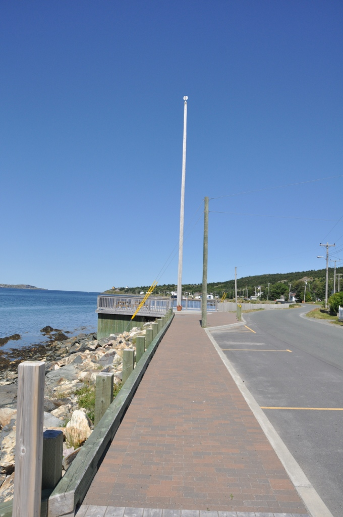 John Guy Flag Site Municipal Heritage Structure, Cupids, Newfoundland.